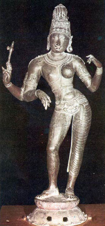 Ardhanarisvara, the intersex form of Siva. Tiruvenkadu. Chola, 11th century AD. This is a scan of an old photograph I took many years ago.